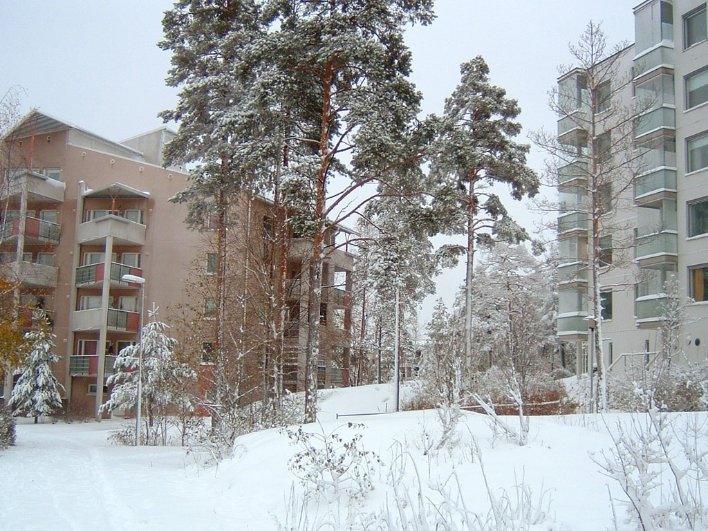 A view of a residential area in Kivikko, Helsinki, Finland on a wintery day